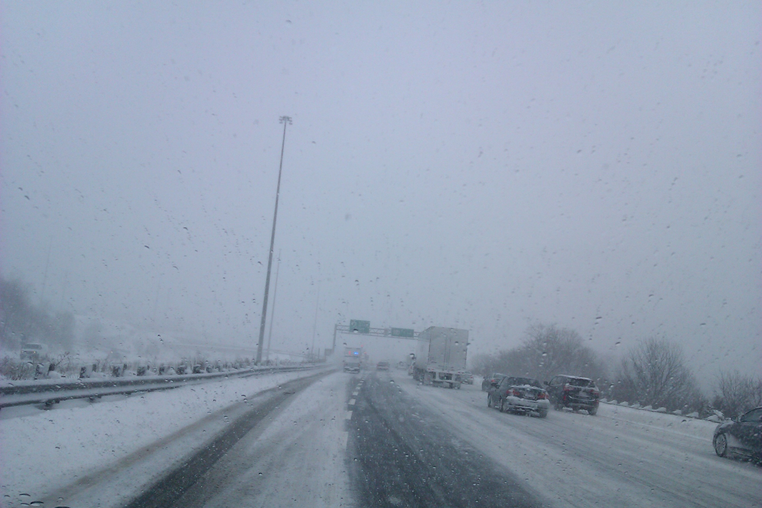 Eastbound on Ontario Highway 403 in Burlington, Ontario, Canada shortly after having passed interchange with Highway 6. Taken shortly after File:2 Ontario Hamilton-Toronto HWY 403.jpg.